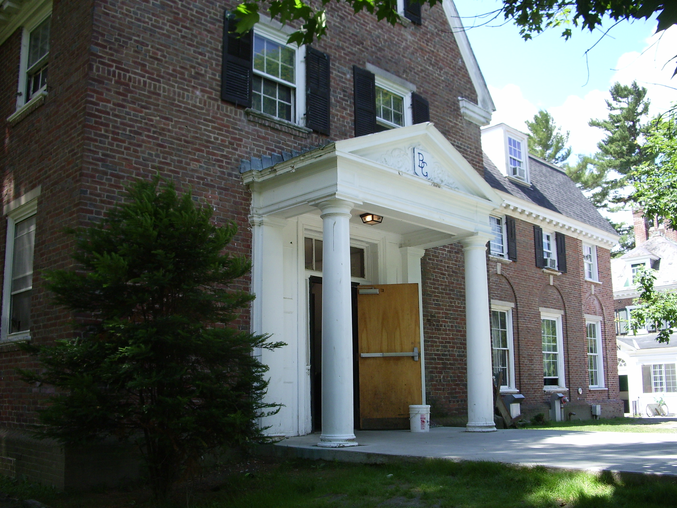 Photograph of Bones Gate at the campus of Dartmouth College in Hanover, New Hampshire.